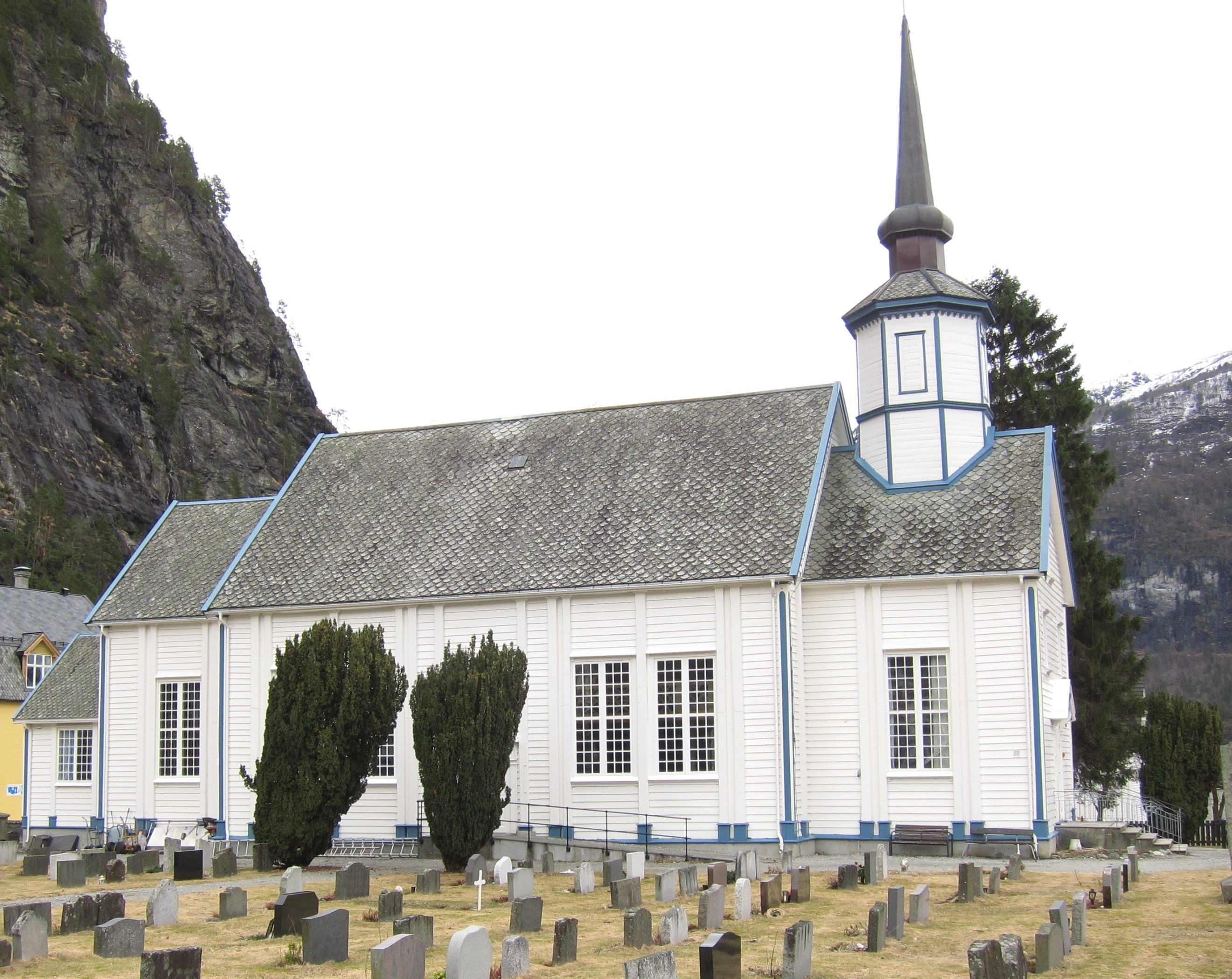 Sylte church, Norddal municipality, Norway, seen from the north